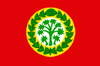 Historical flag of the Republic of Batumi